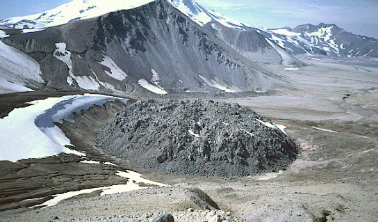 Novarupta-Dome (Katmai-Nationalpark, Alaska) , USGS Photo by Gene Iwatsubo, July 29, 1987